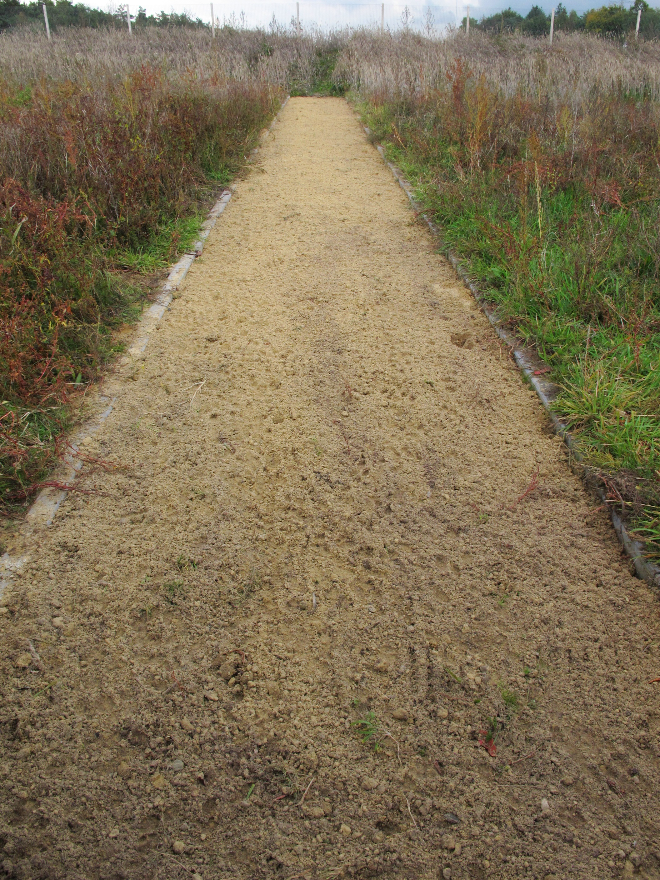 Ecoduct Mollebos, with transversal a small sandtrack to see the traces of the crossing animals